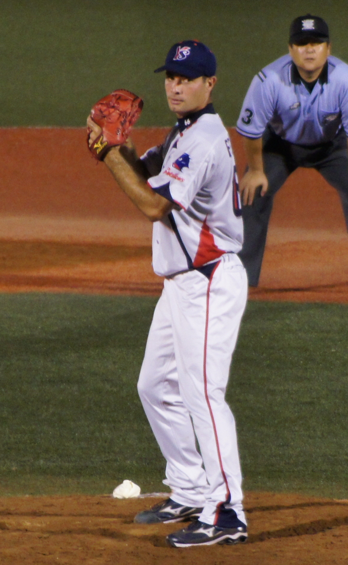 Rafael Fernandes, pitcher of the Tokyo Yakult Swallows, at Yokosuka Stadium.